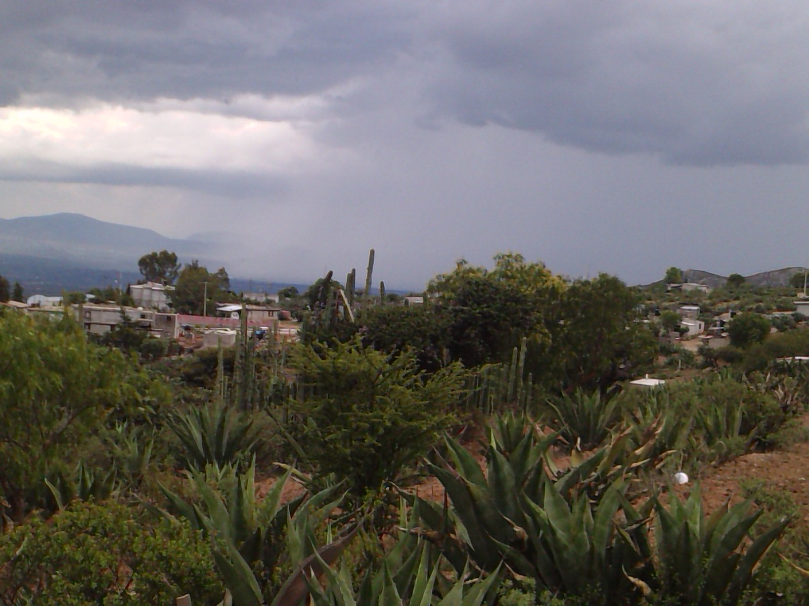 View of Cerrito Cardonal in the State of Hidalgo Mexico